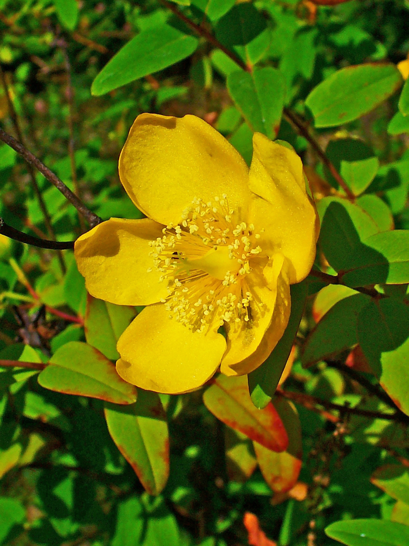 Hypericum hookerianum, Hypericaceae, Hooker’s St. John's-wort, flower; Botanical Garden KIT, Karlsruhe, Germany.